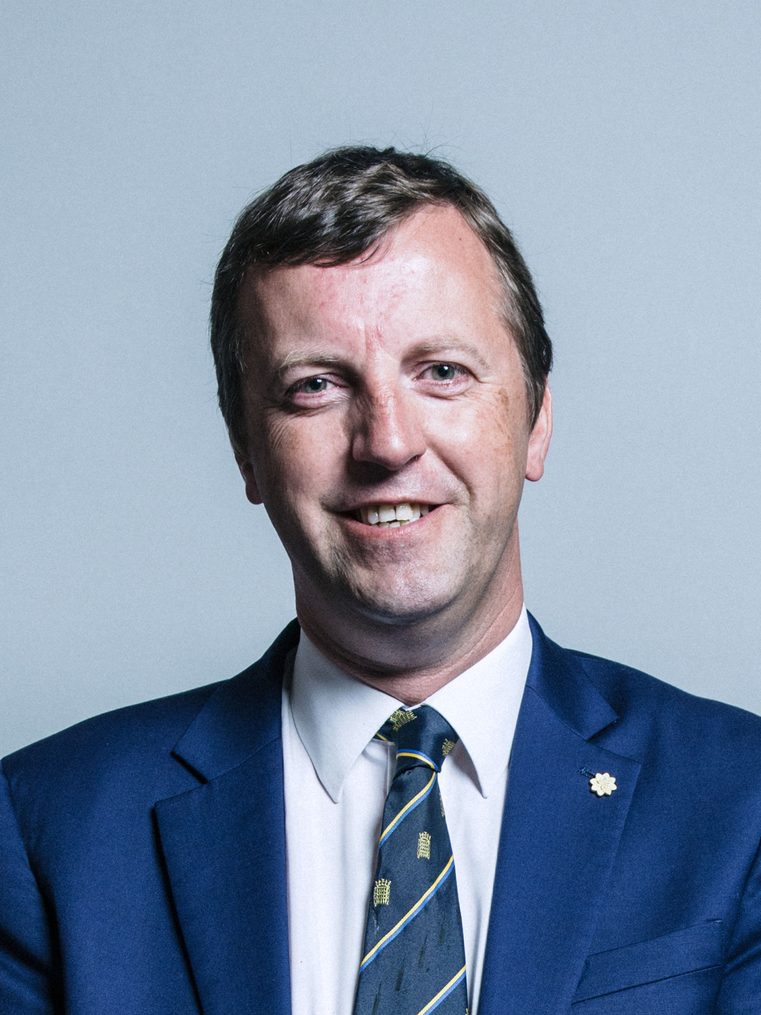 Official portrait of Jonathan Edwards